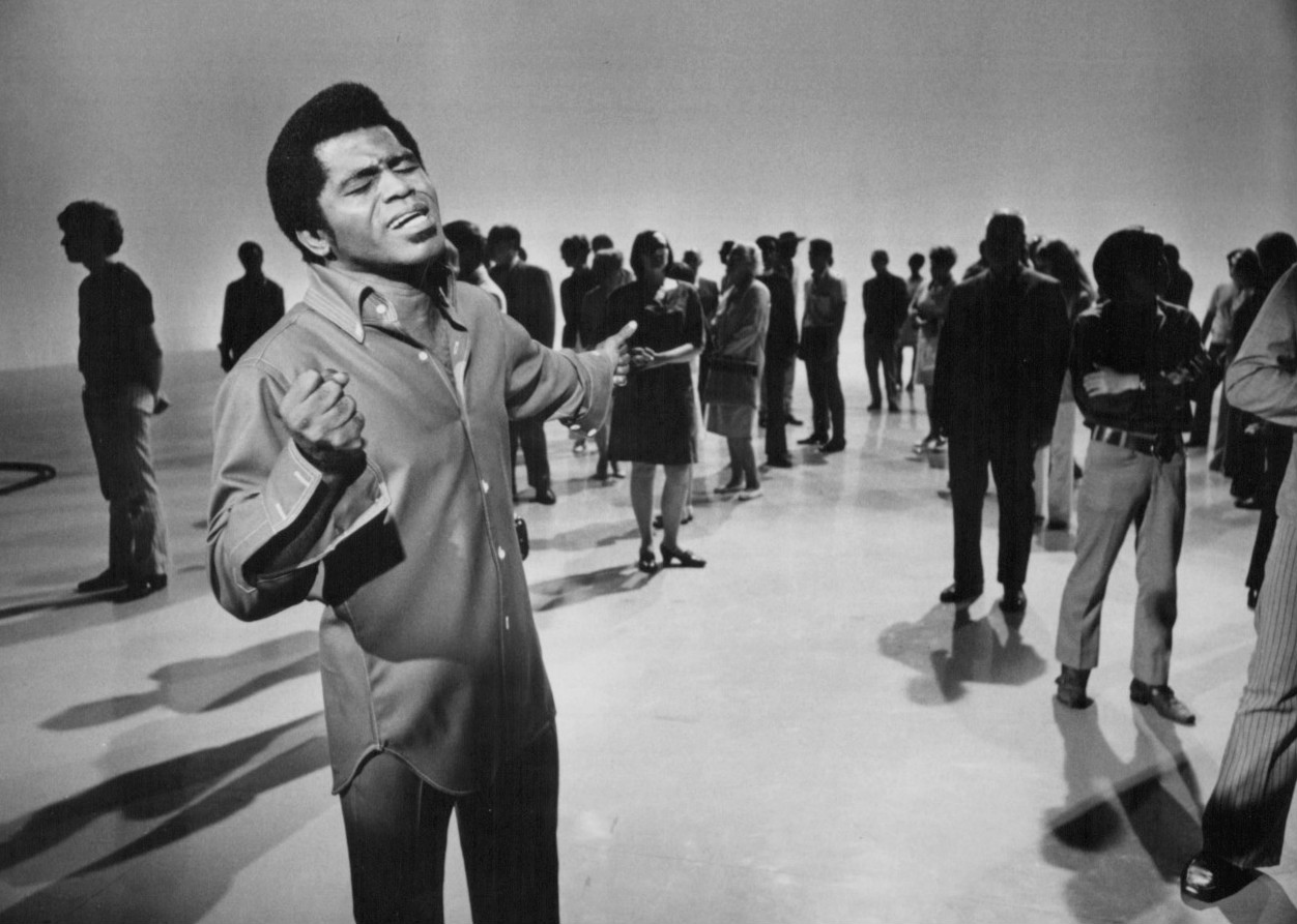 Photo of James Brown performing on the ABC Television program Music Scene.